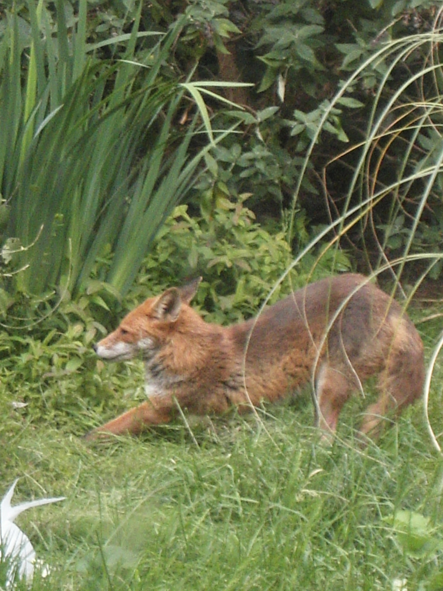 An Urban fox stretching in the morning sunshine, in my small Walthamstow back garden!